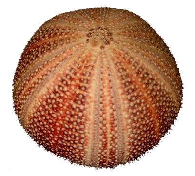 update version of :Image:Zeeegel2.jpgto go better with WP as a whole same license New Foundland